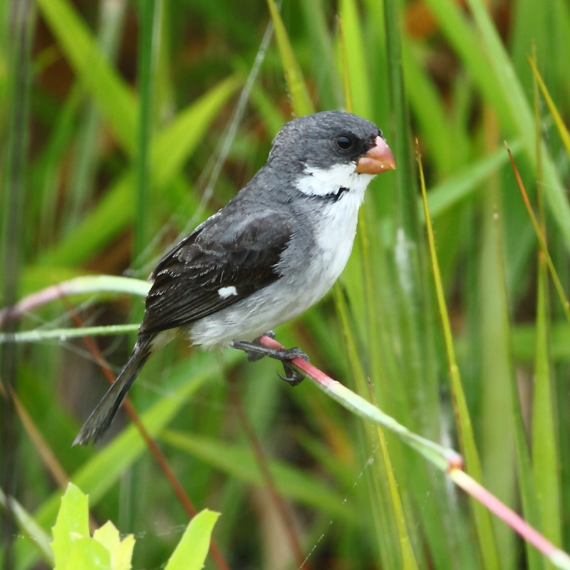 White-bellied Seedeater (male) at Mogi das Cruzes - SP - Brazil